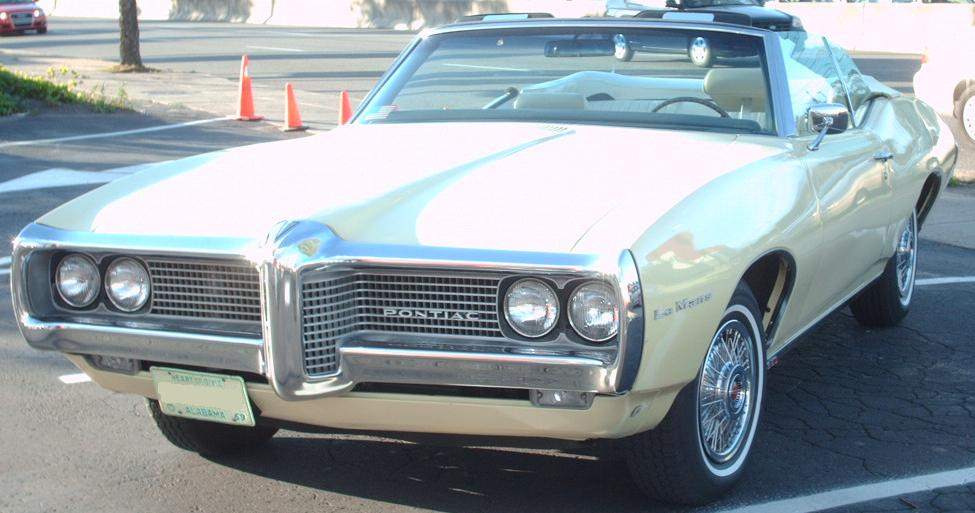 1969 Pontiac LeMans convertible photographed in Montreal, Quebec, Canada at Gibeau Orange Julep.